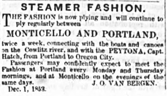 Advertisement for steamboat Fashion running on the Columbia River, 1850s